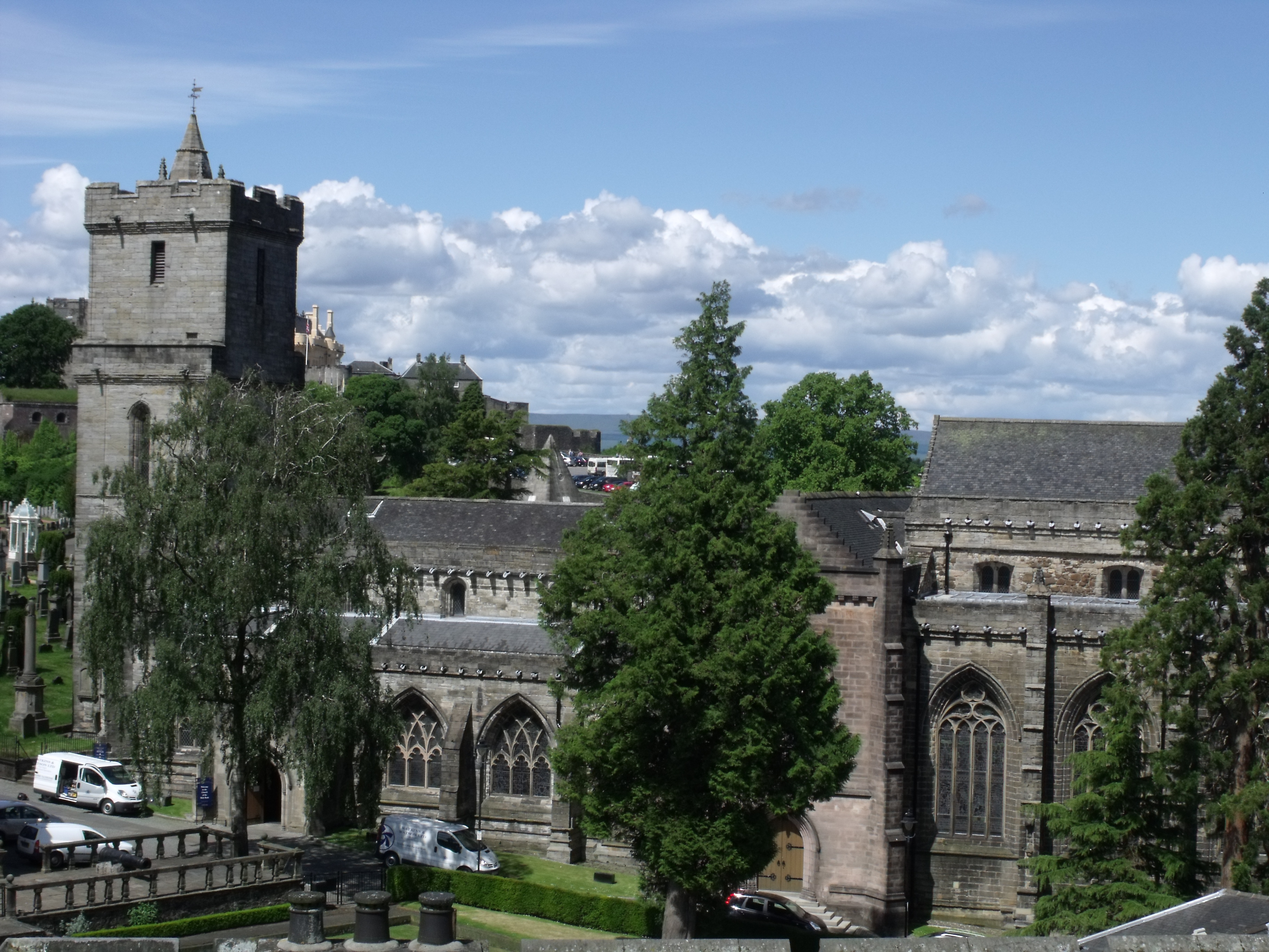 The Church of The Holy Rude - seen from the roof walkway of Stirling Old Town Jail